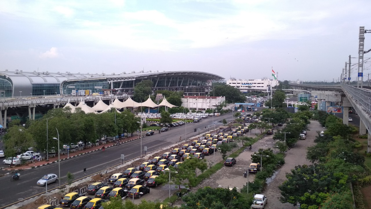 CHENNAI DOMESTIC AND INTERNATIONAL AIRPORT